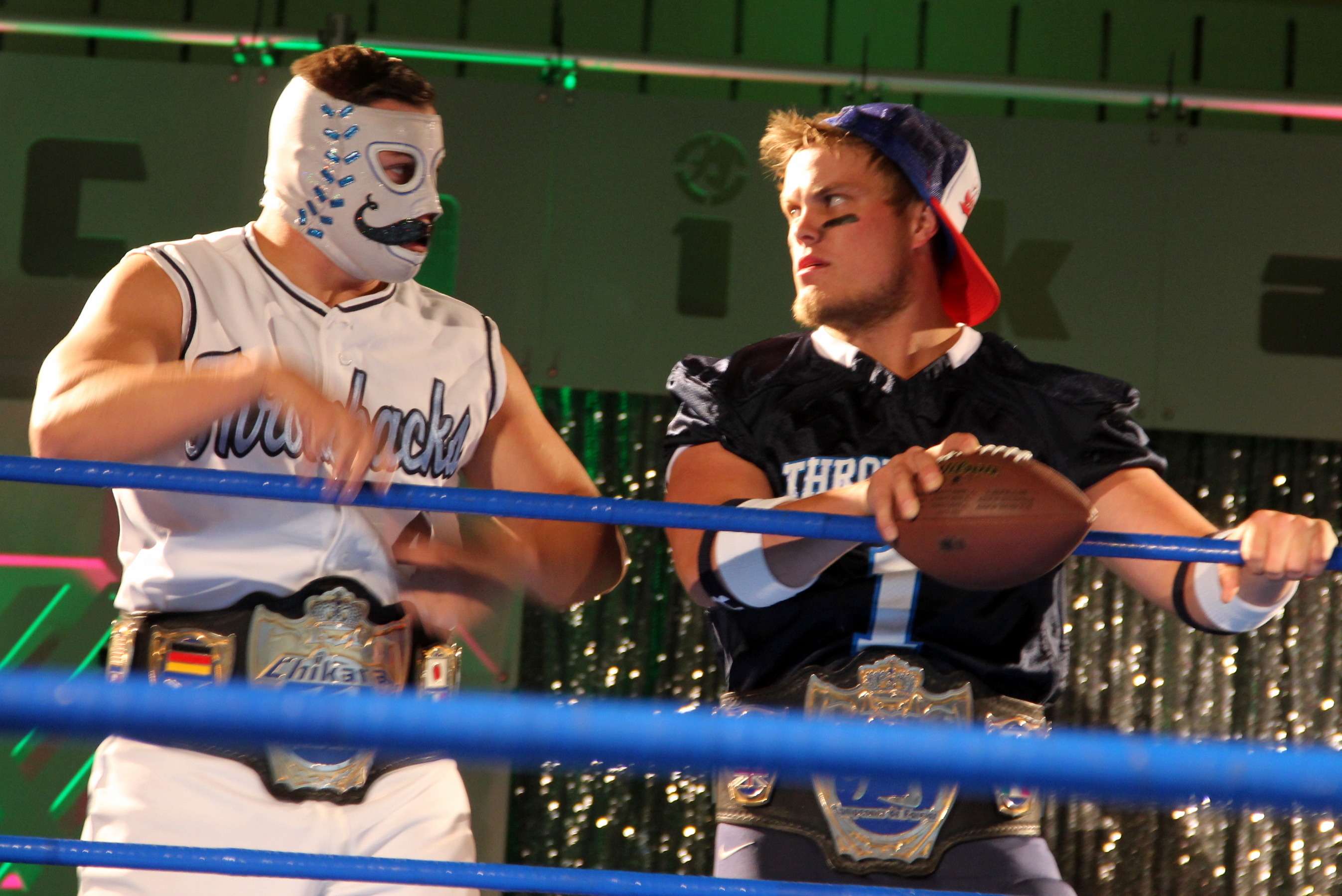 Dasher Hatfield and Mark Angelosetti at Chikara's King of Trios Night 1 show in September 2014, wearing the Campeonatos de Parejas title belts.